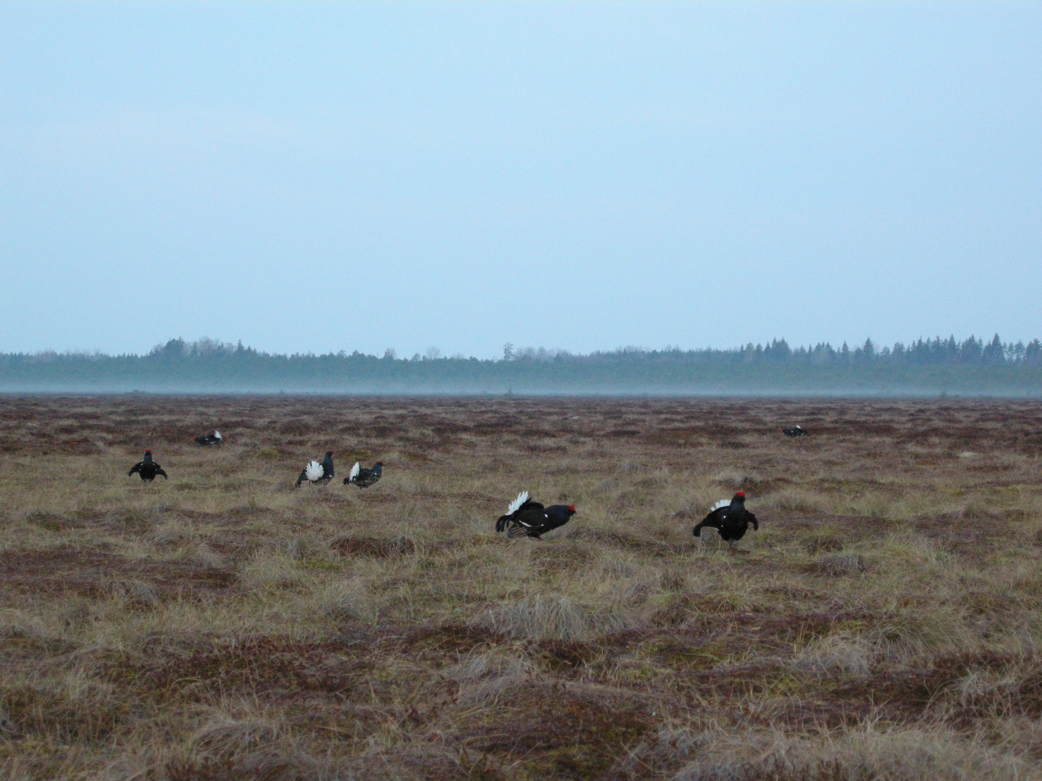 7 Black grouses (Tetrao tetrix) males displaying on a lek, in the Uppland province of Sweden